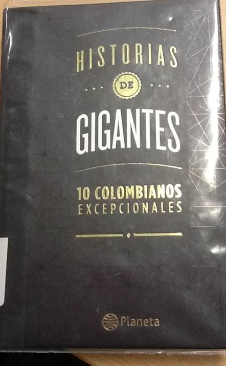 Recopilación de artículos periodísticos acerca de 10 colombianos excepcionales